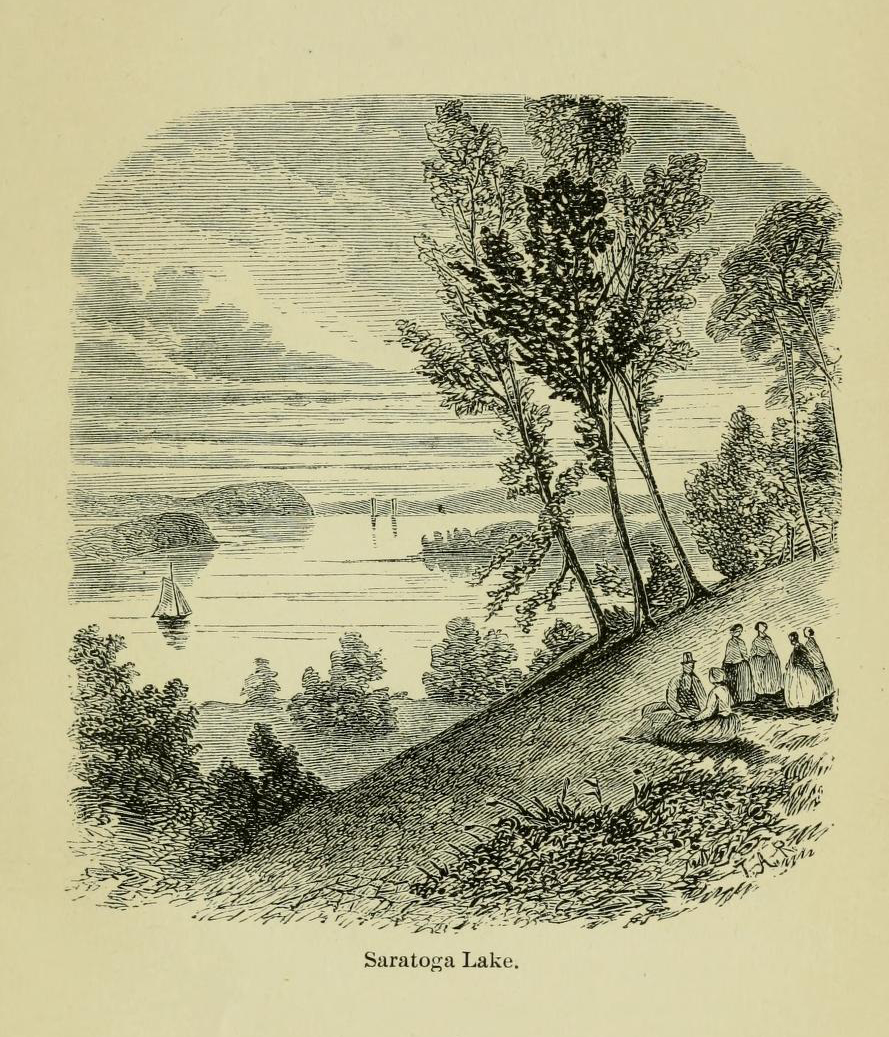 Engraving following page 62 of "Miller's Guide to Saratoga Springs and Vicinity" by T. Addison Richards. Illustrator not credited.